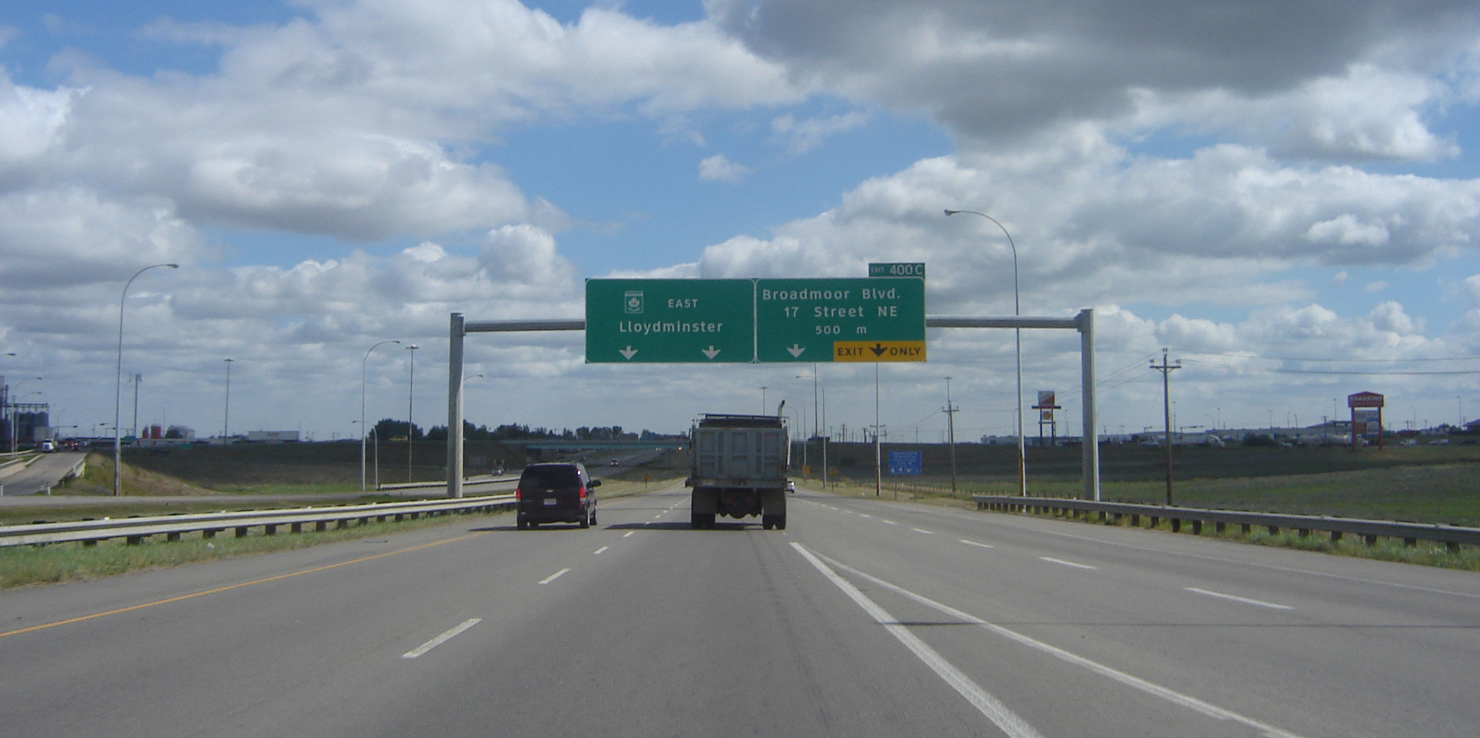 Exit 400C Highway 16 east Lloydminster, Broadmoor Blvd, 17 Street NE, 500 m Exit only. Sign at East outskirts of Edmonton Alberta.